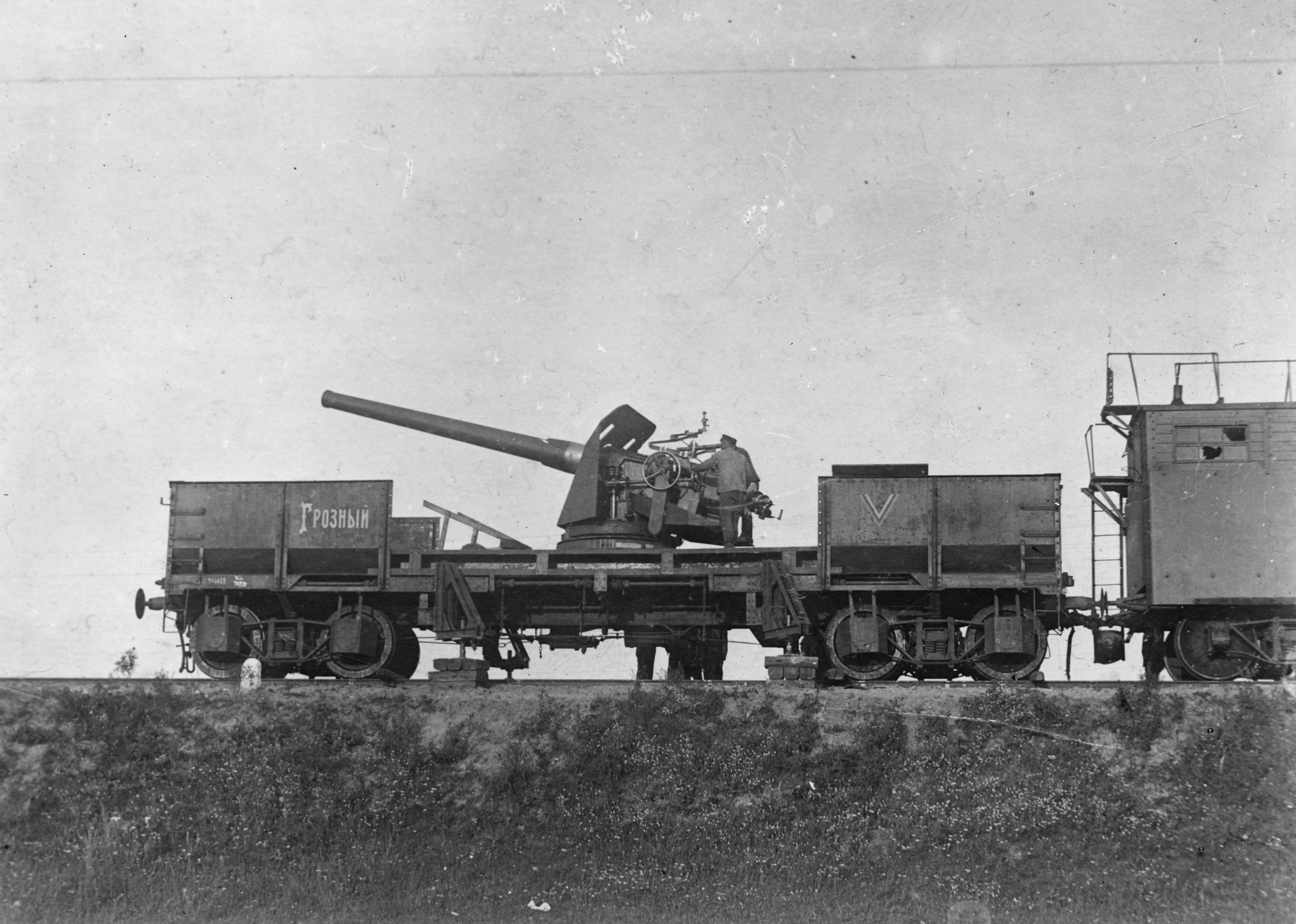 Armoured train "Grozny" during Civil War in Russia.